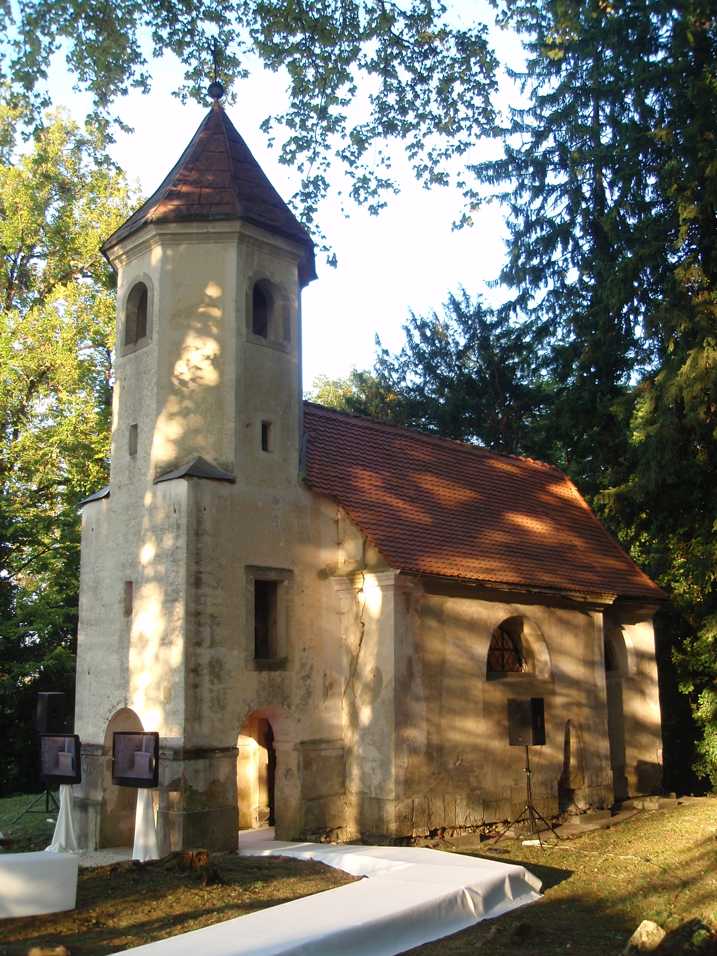 Saint Ana chapel is a castle chapel of Mokrice castle.